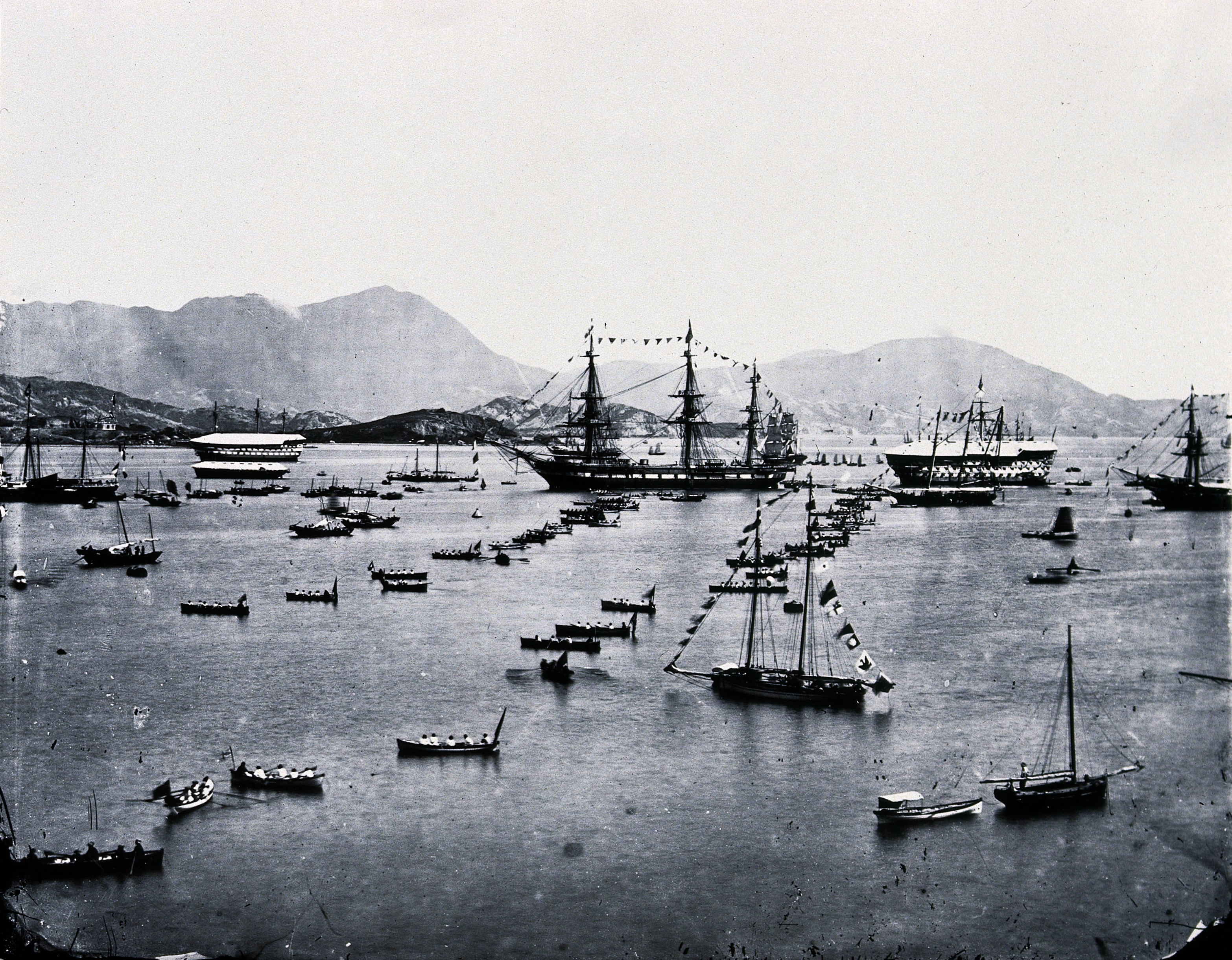 The Galatea, in Hong Kong harbour, carrying H. R. H. The Duke of Edinburgh. Iconographic Collections Keywords: John Thomson; john thompson; Water; J. Thomson; China; Landscape